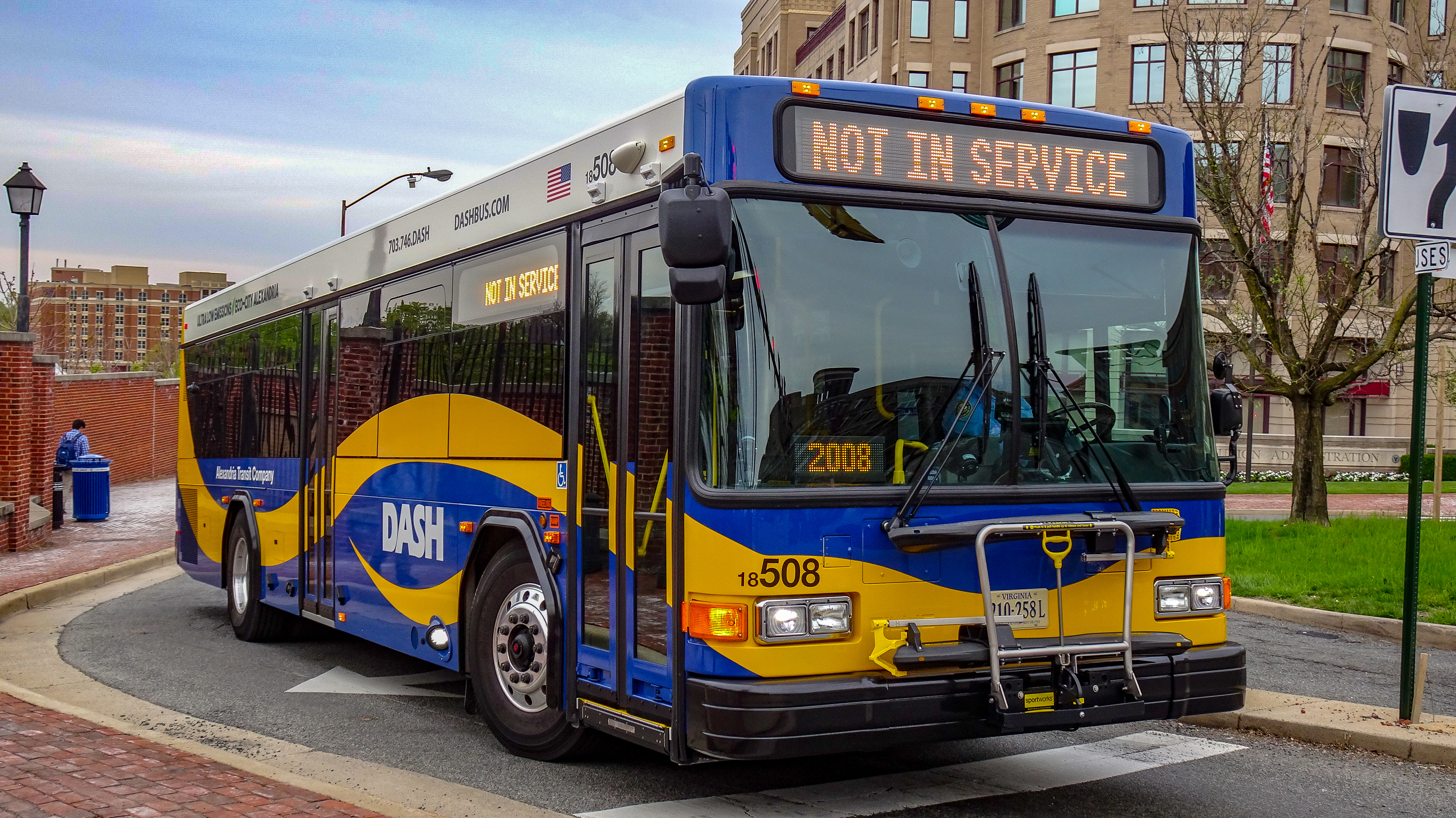 Here is one of DASH 2018 Gillig LF Advantage Diesel leaving King St Station